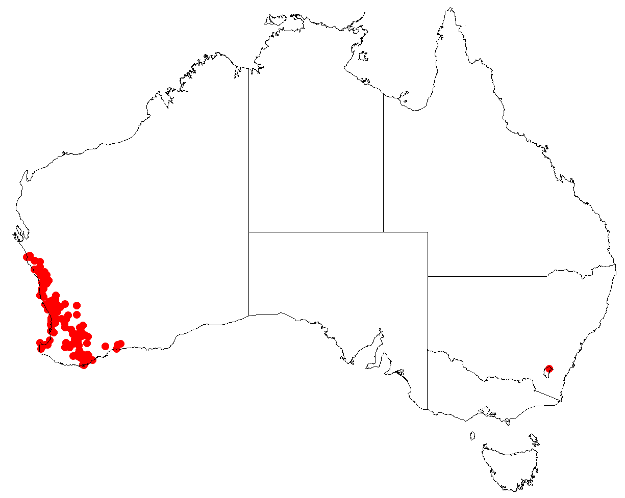 Anigozanthos humilis occurrence data Downloaded from Australasian Virtual Herbarium 12 May 2017